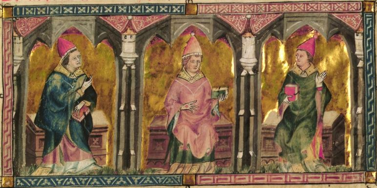 Miniature by Pierart dou Tielt illustrating the Tractatus quartus bu Gilles li Muisit (Tournai, c. 1353)